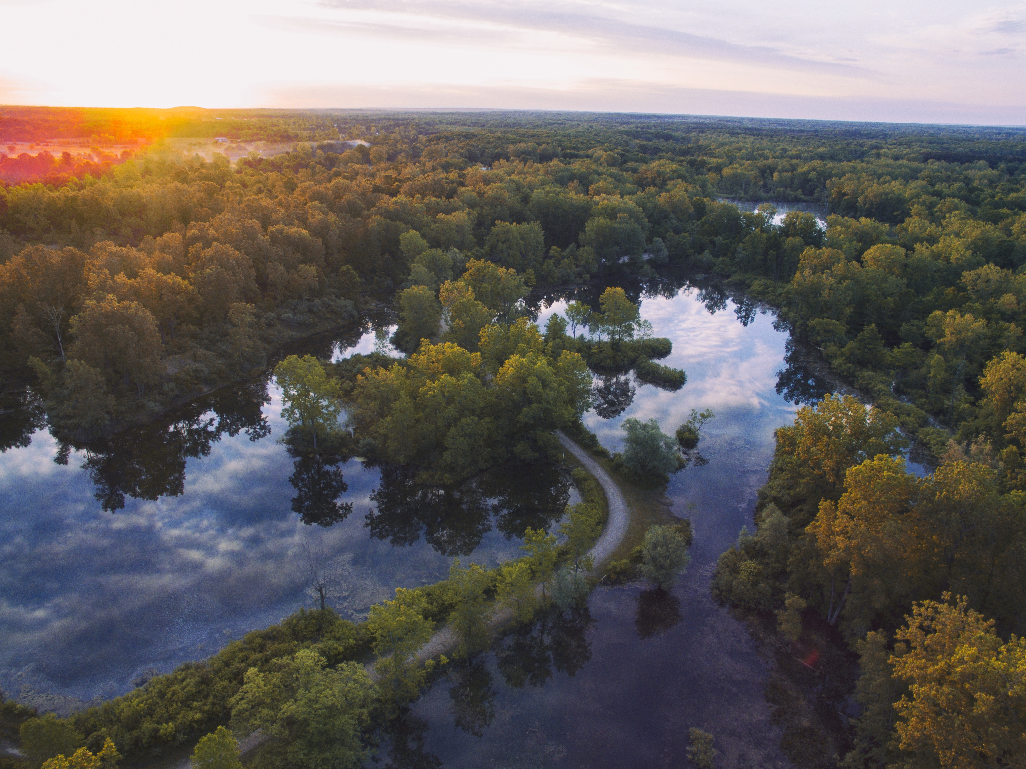 Otisville, United States